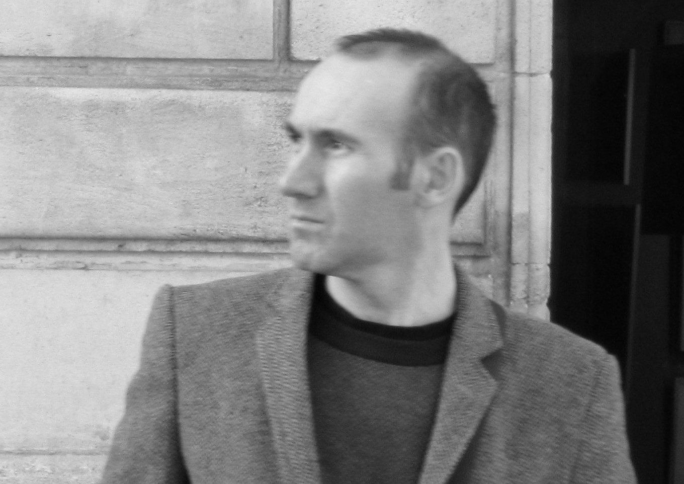 Picture of Stephen Kelman, Author.